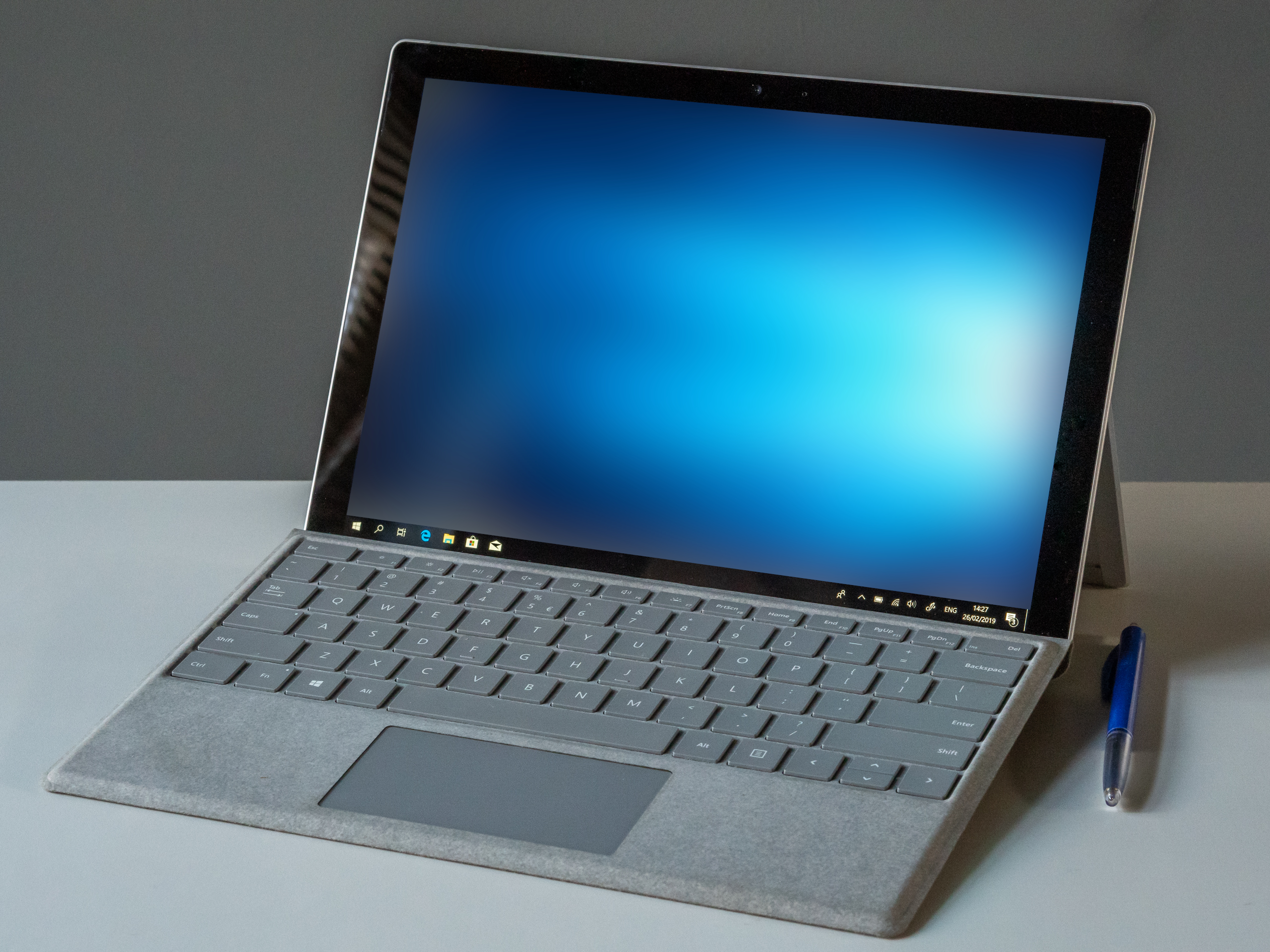 Microsoft Surface Pro 2017 with the Microsoft signature type cover attached